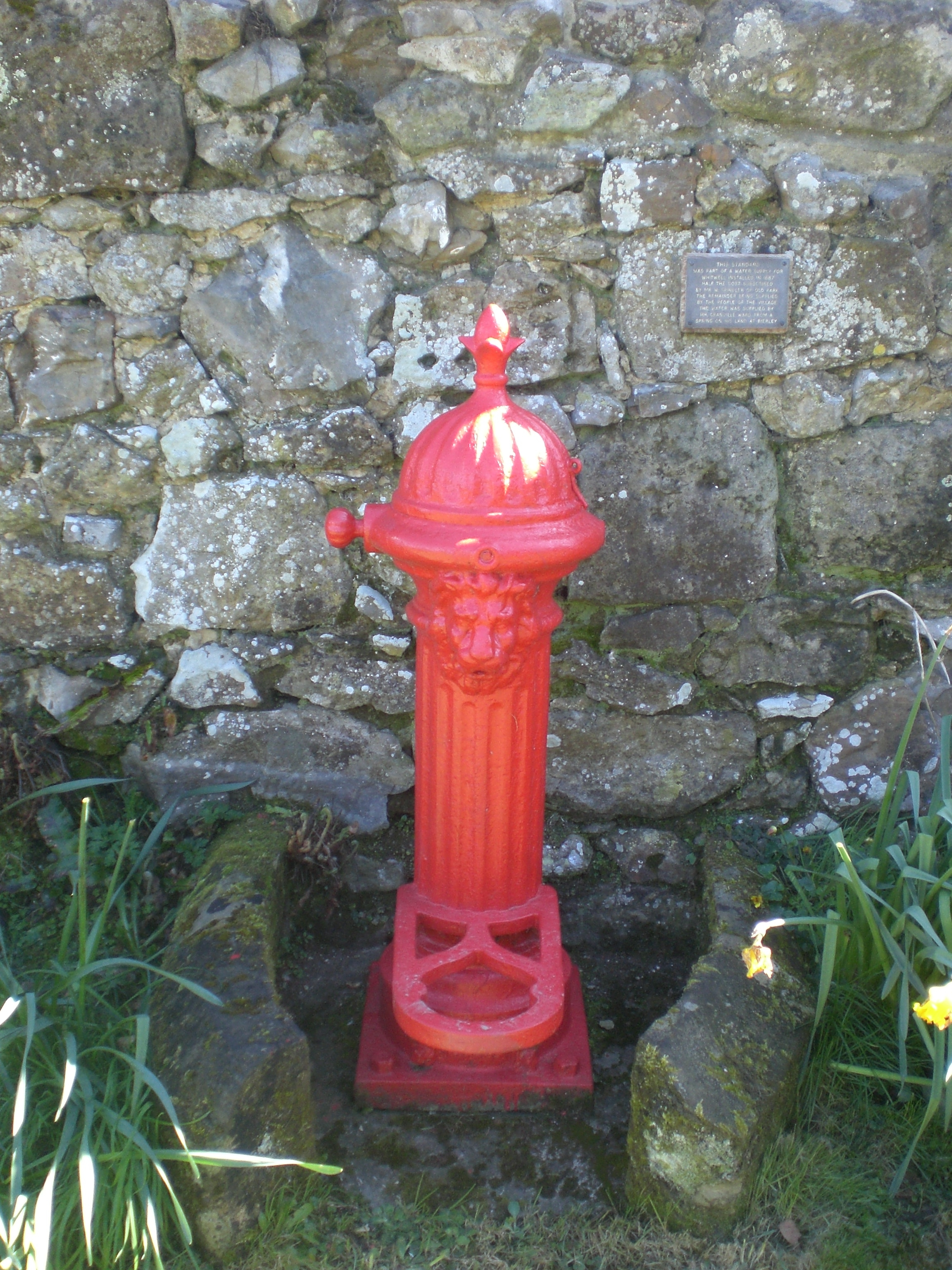 Water Standard near the White Well, in Whitwell